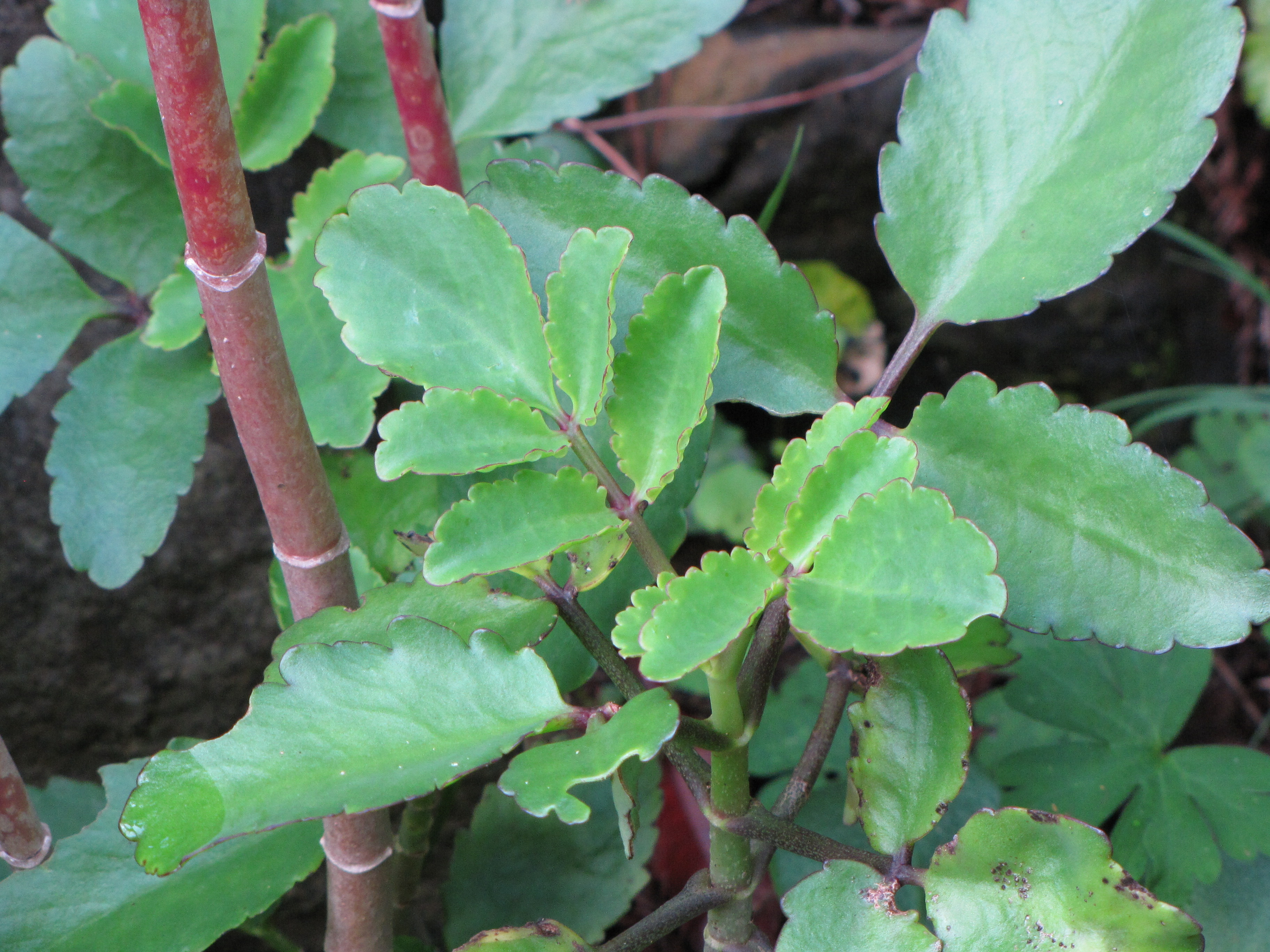 Kalanchoe pinnata (Air plant) Habit at Kula Botanical Garden, Maui, Hawaii. March 07, 2011 #110307-2136 Image Use Policy Also known as Bryophyllum pinnatum.